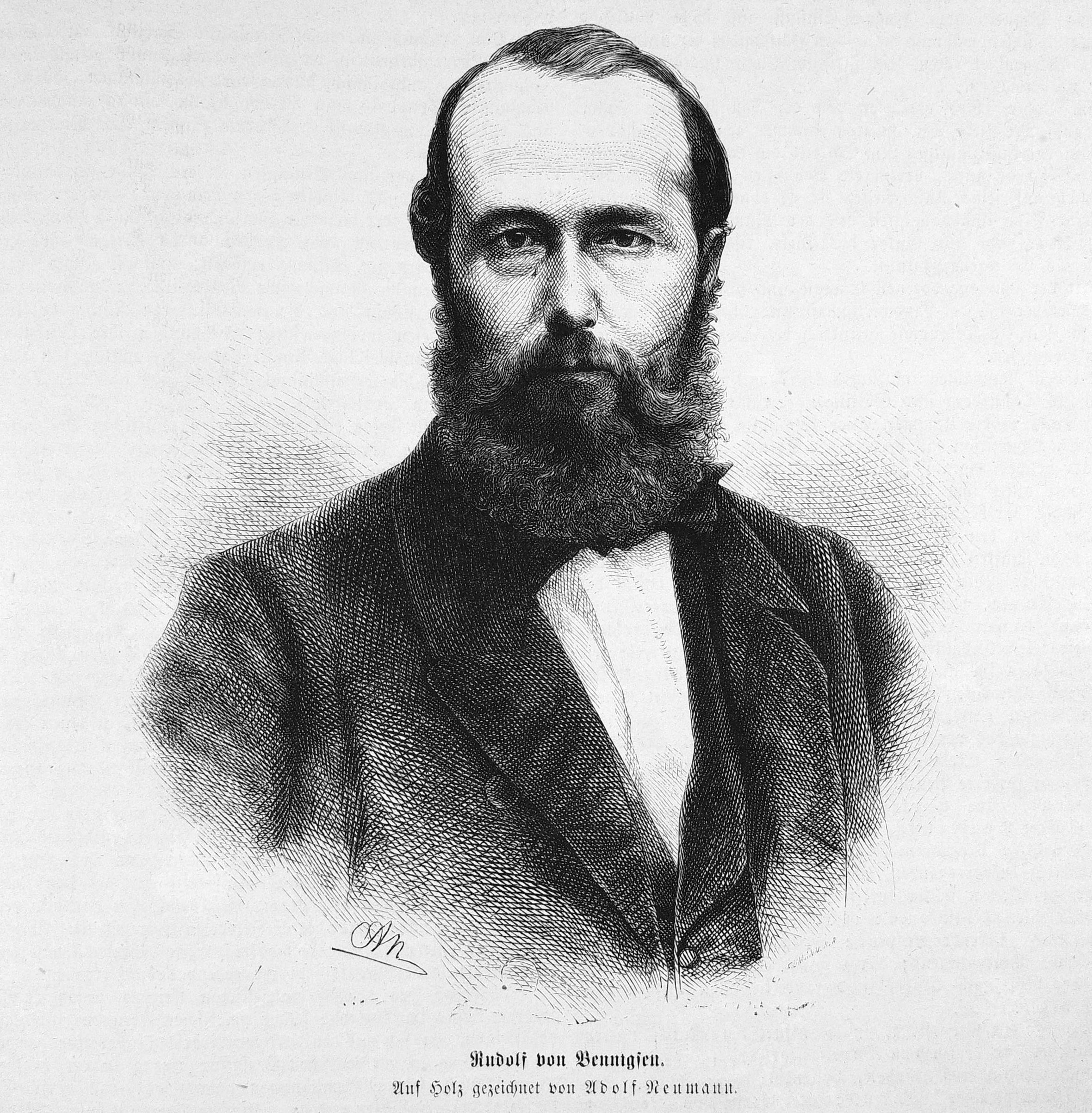 caption: "Rudolf von Bennigsen.Auf Holz gezeichnet von Adolf Neumann."